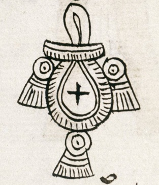 Bag of inciense glyph. Codex Mendoza, Detail of folio 23v. Here representing the number 8,000 in nahuatl numeration.